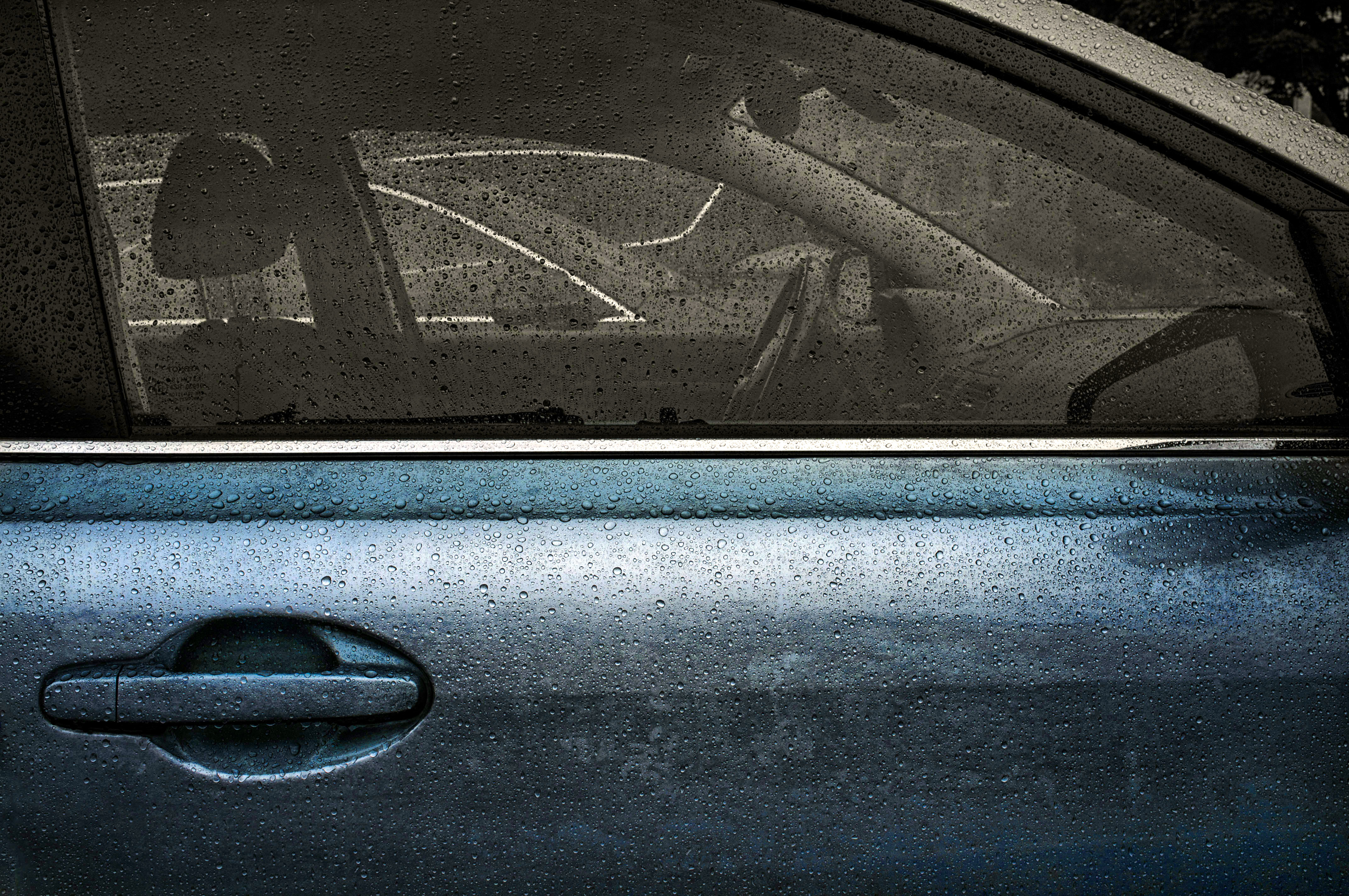 Photograph partially inspired by the song Solsbury Hill of Peter Gabriel's first solo album.